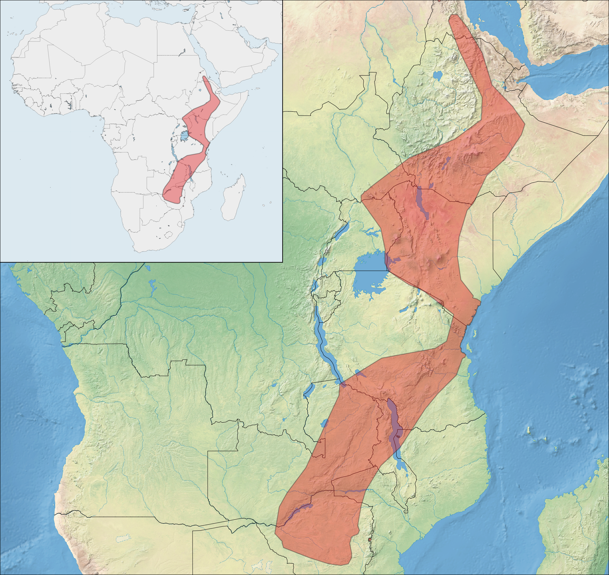 Geographic range of Chaerephon bivittatus (Synonyms: Tadarida bivittata, Chaerephon bivittata and Nyctinomus bivittatus)